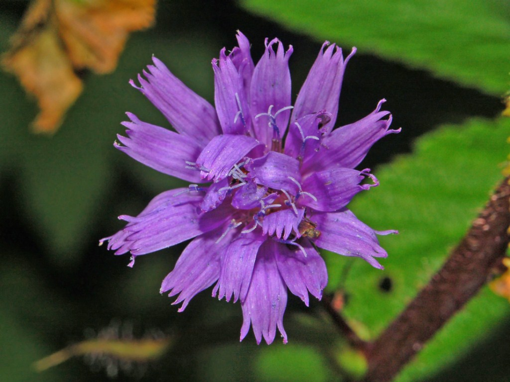 Cicerbita alpina